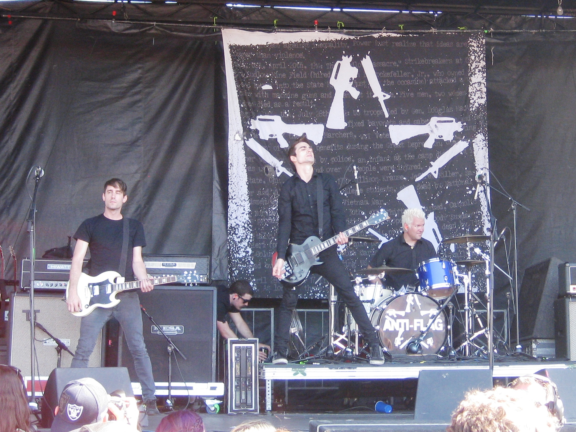 Anti-Flag performing on the Warped Tour at the Cricket Wireless Amphiteatre in Chula Vista, California on June 27, 2012. Left to right: guitarist Chris Head, singer/guitarist Justin Sane, and drummer Pat Thetic.